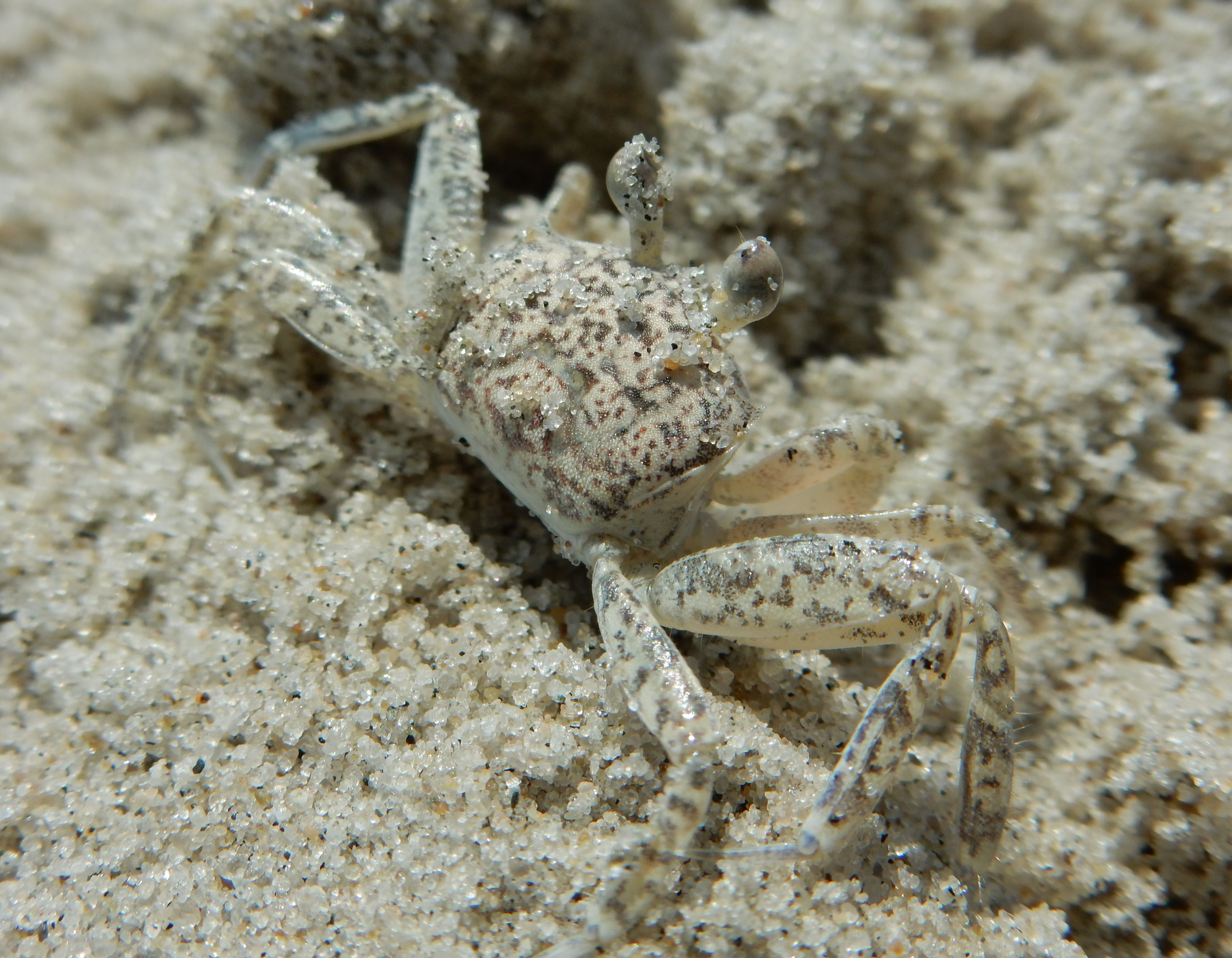 Juvenile Atlantic Ghost Crab, Sea Isle City, New Jersey.